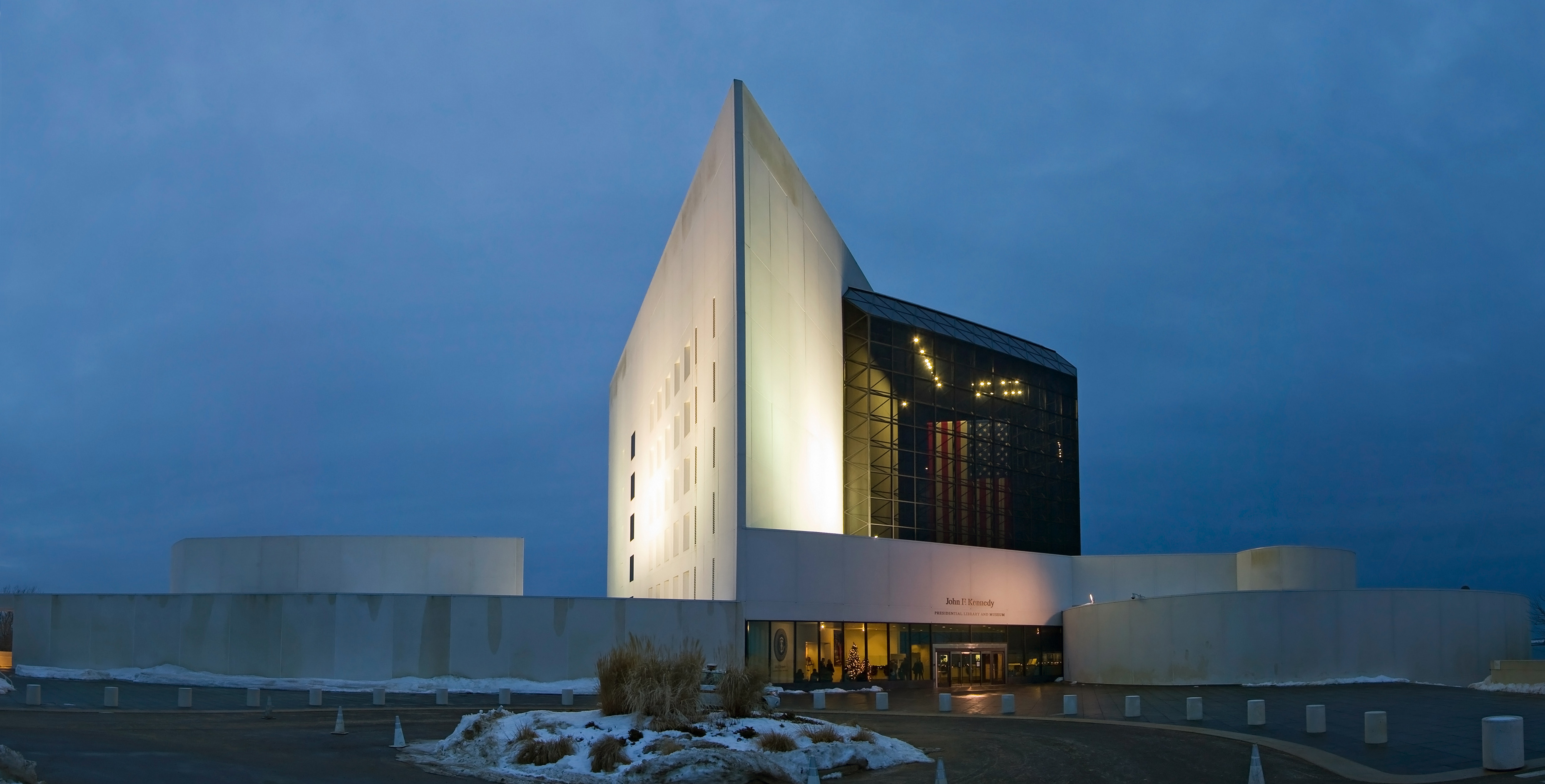 The John F Kennedy Library, in Boston, MA. Designed by I. M. Pei (1964-1979).